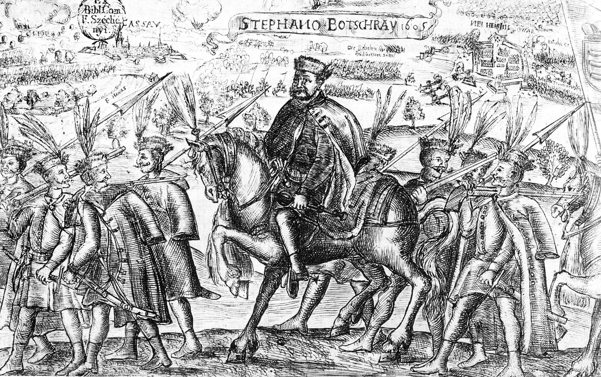 Hungarian Prince of Transilvania Stephen Bocskay and his hajdú warriors